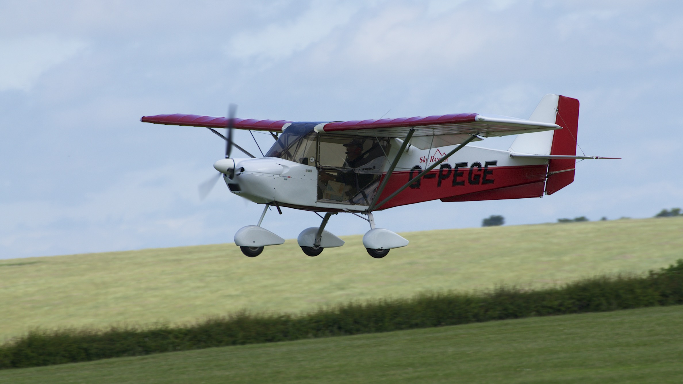 The busiest day ever in the history of this charming airfield. A hot sunny day was the icing on the cake!